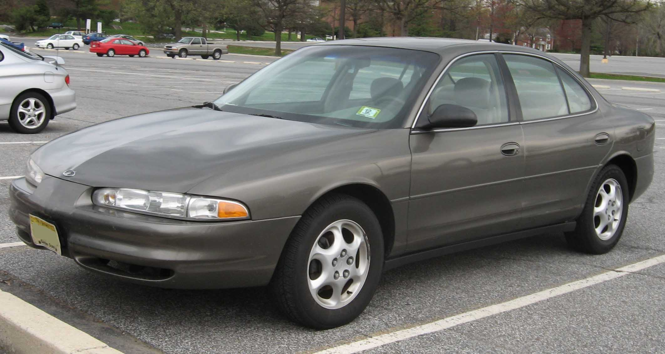 Oldsmobile Intrigue photographed in College Park, Maryland, USA.